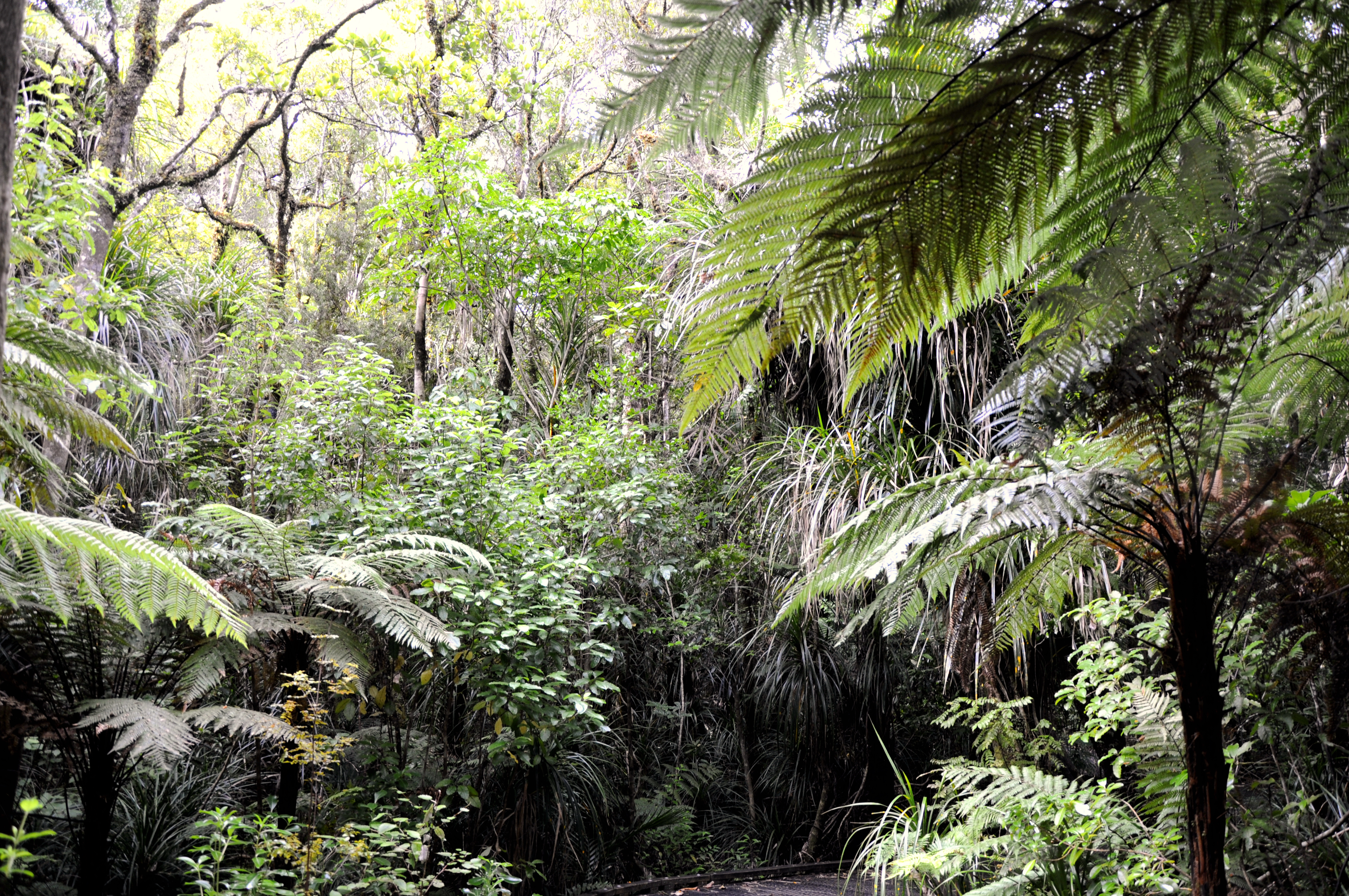 The jungle inside Waipoua Forest. This photo has been taken by Prof.Chen Hualin.